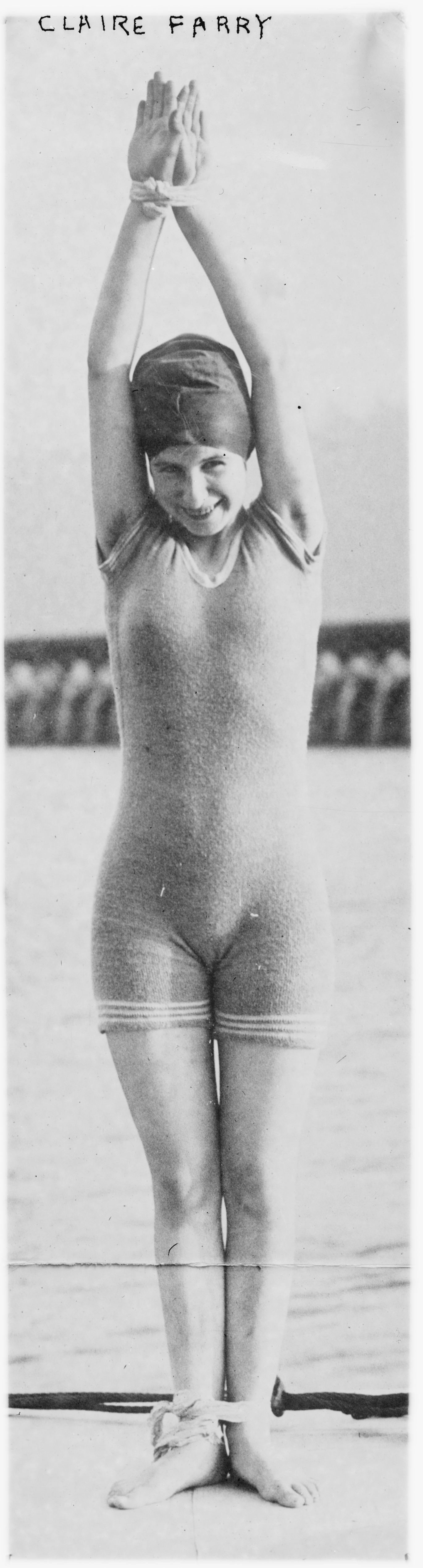 Swimmer Claire Farry, posing standing in swimsuit with her hands and feet bound by ropes. 1910s. Bain News Service,, publisher. Claire Farry diving [between ca. 1910 and ca. 1915] 1 negative : glass ; 5 x 7 in. or smaller. Notes: Title from unverified data provided by the Bain News Service on the negatives or caption cards. Forms part of: George Grantham Bain Collection (Library of Congress). Format: Glass negatives. Repository: Library of Congress, Prints and Photographs Division, Washington, D.C. 20540 USA, General information about the Bain Collection is available at Persistent URL: Call Number: LC-B2- 2801-6